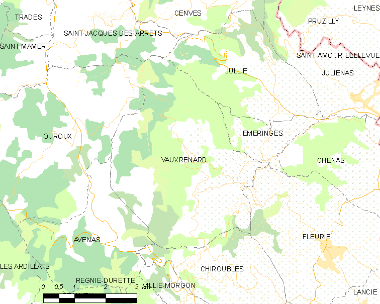 Map of French municipality